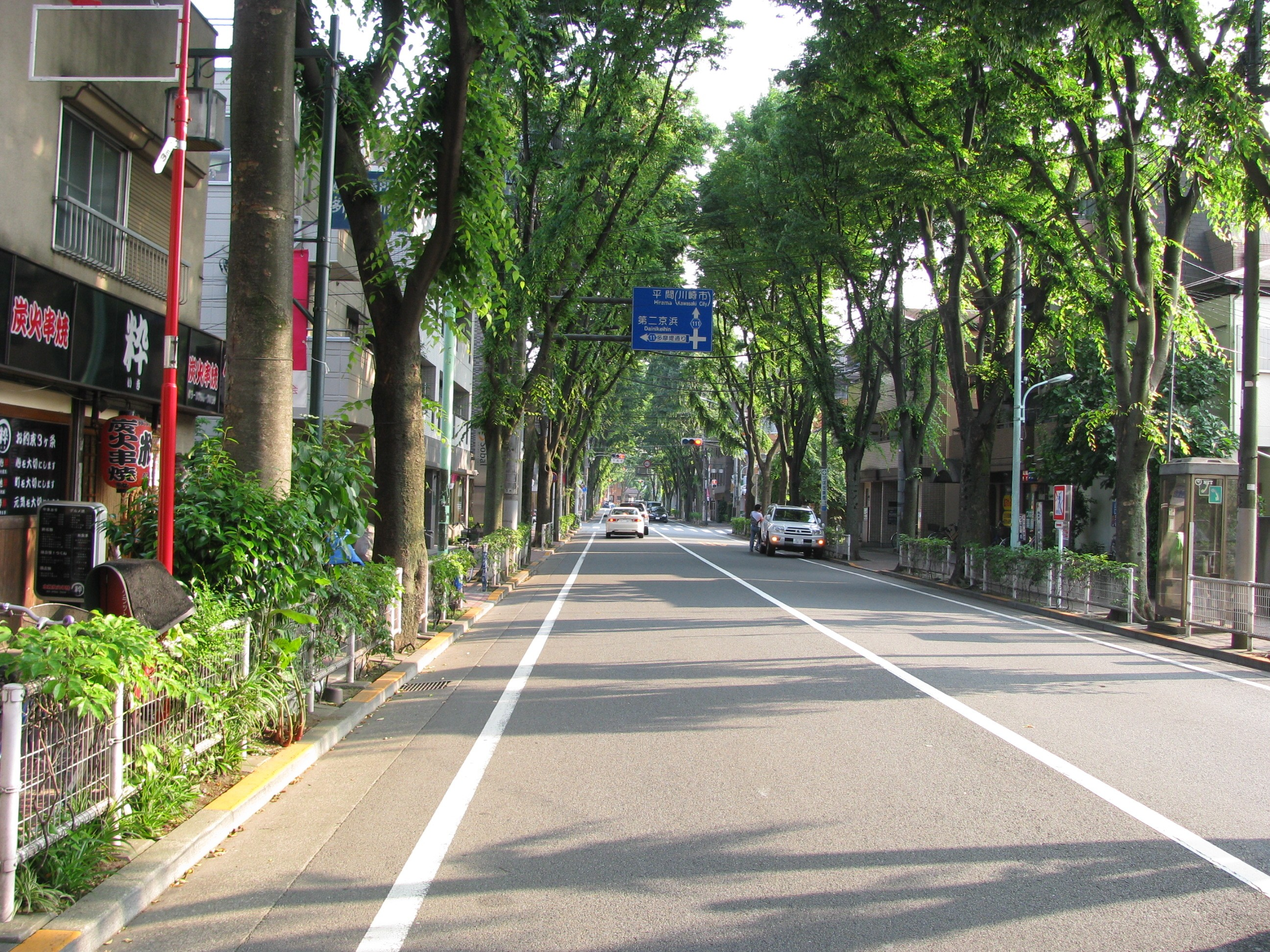 The Tokyo Prefectural Route 11. This place is Ōta, Tokyo, Japan.